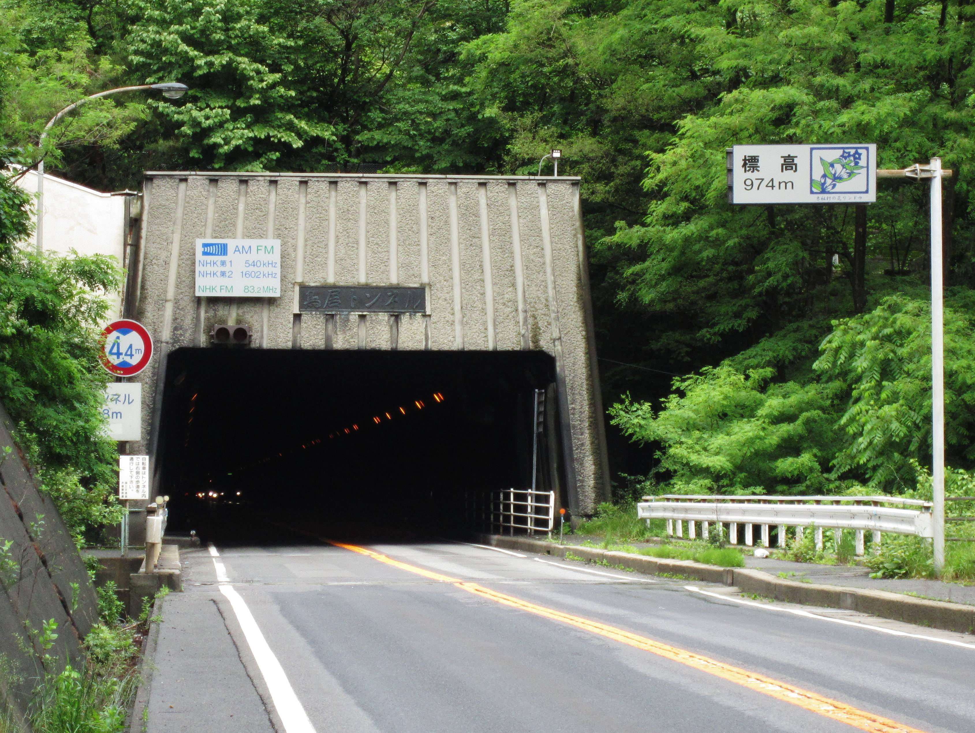 Trii Tunnel.